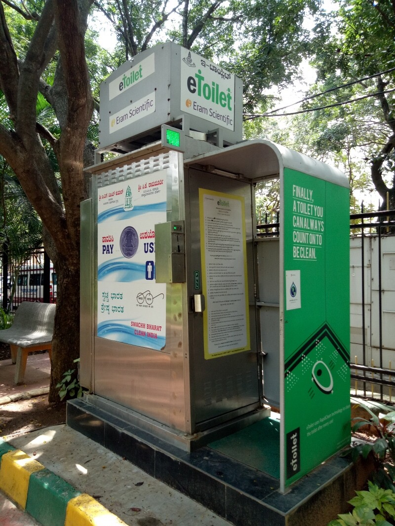 an image of eToilet or Electronic Toilet in India